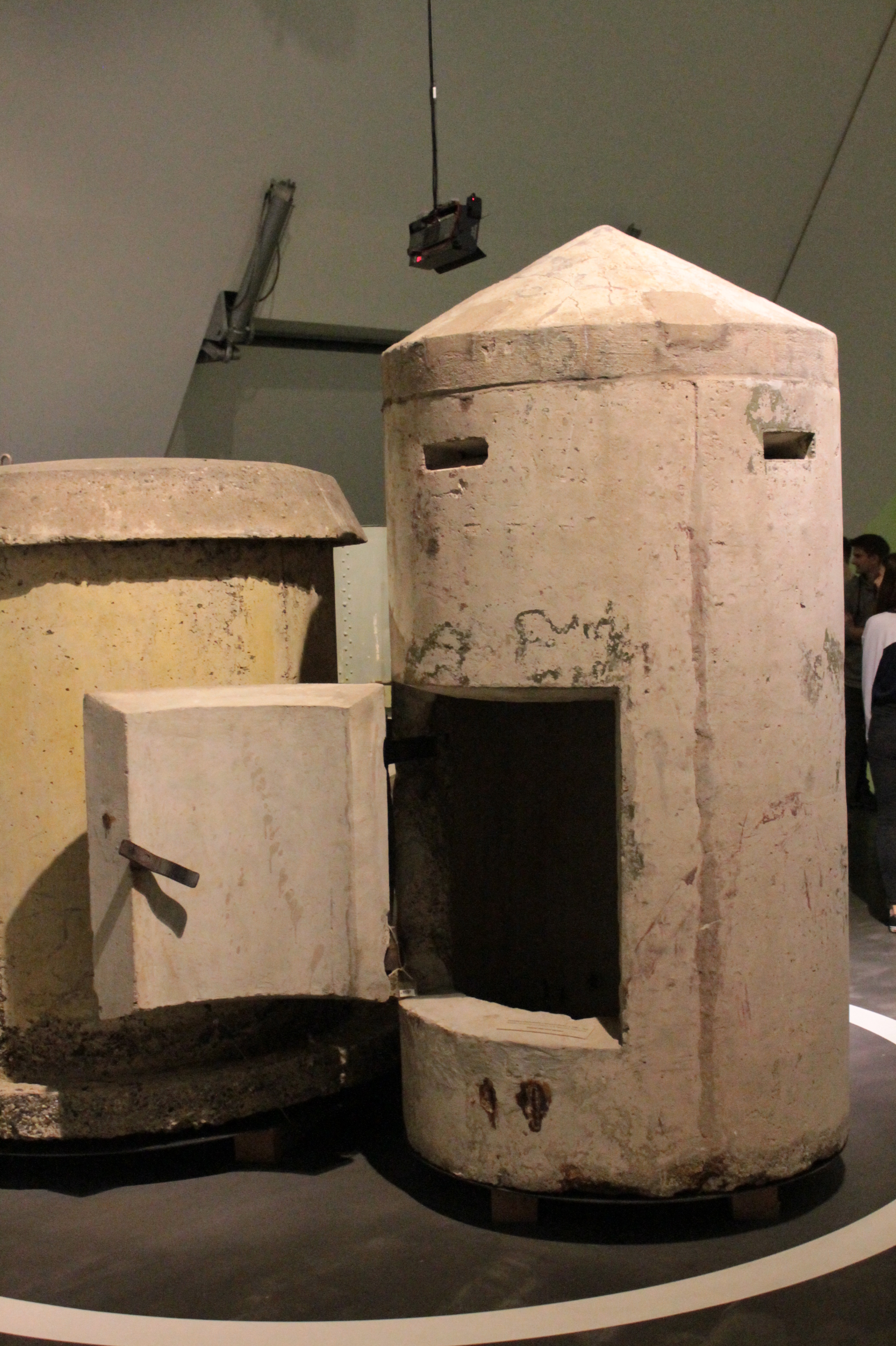 One man shelter (single person bunker) from WW2, Germany, Bundeswehr Military History Museum, Dresden